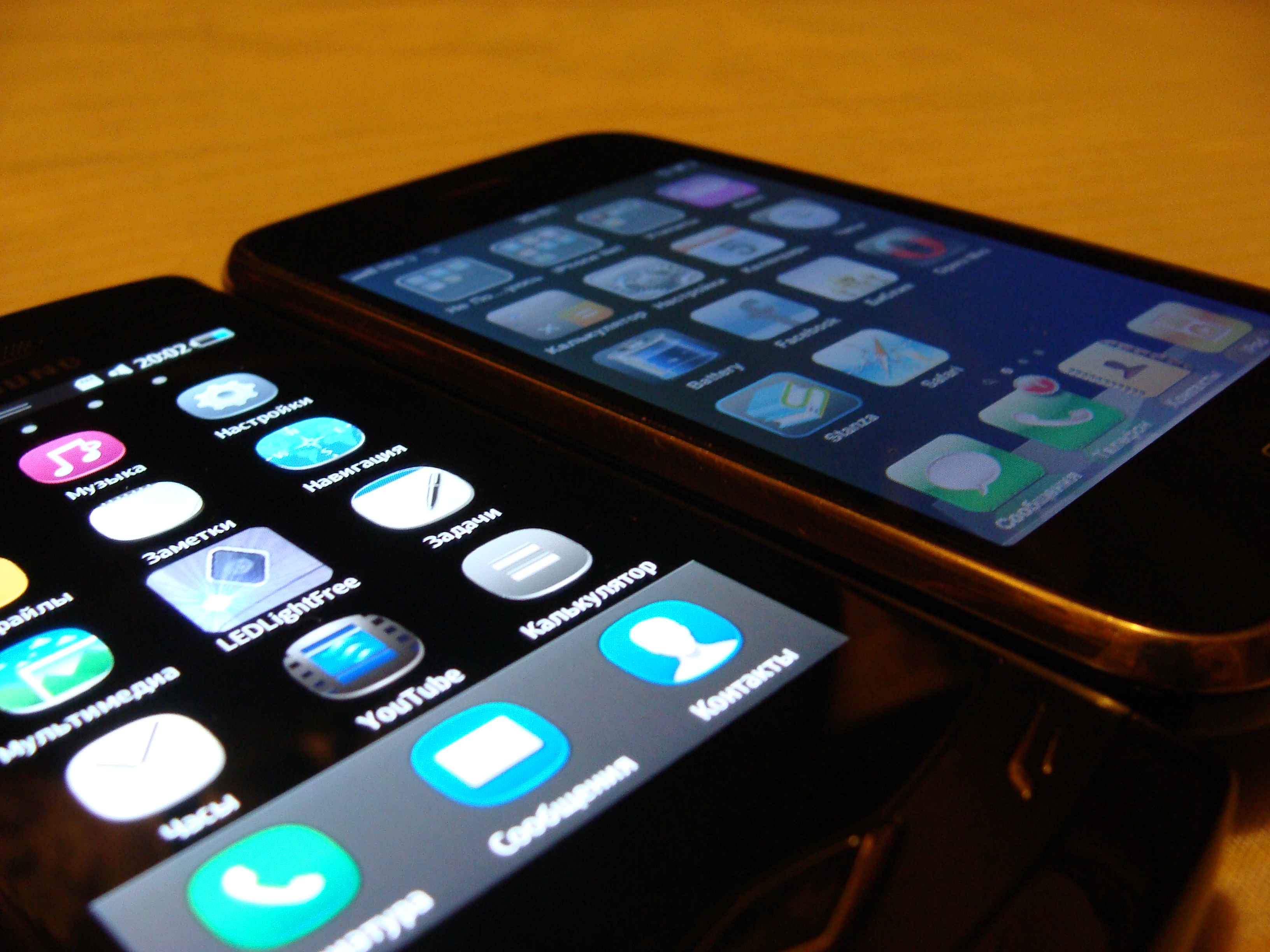 Super AMOLED(Samsung Wave) vs. TFT(iPhone)